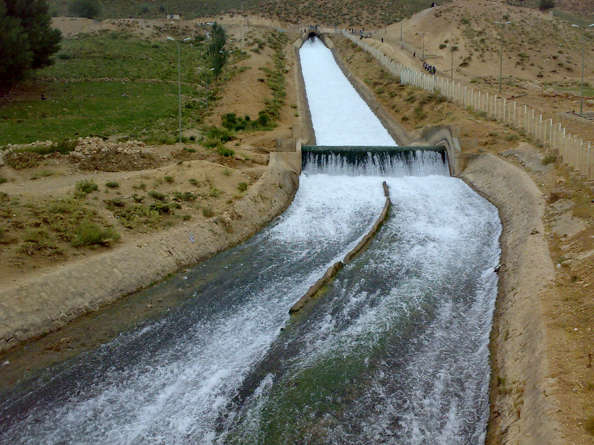 Koohrang Dam and Tunnel 1, Chaharmahal and Bakhtiari province, Iran.